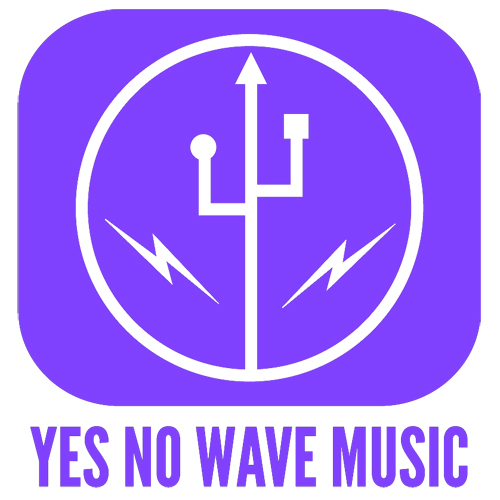 Logo Yes No Wave Music